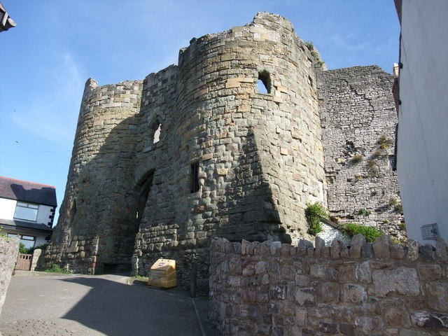 Burgess Gate, Denbigh Former entrance to the medieval walled town.